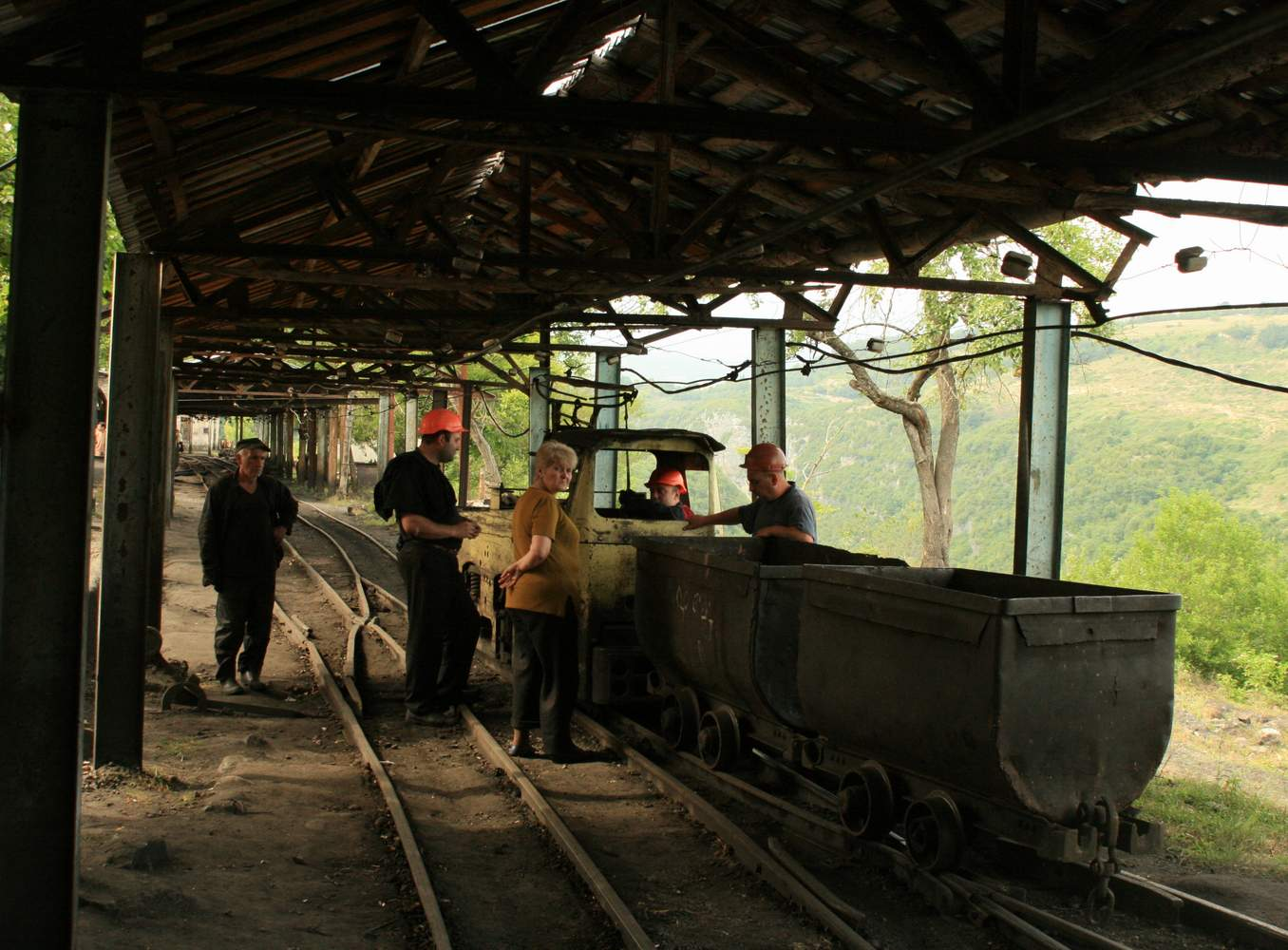 Chiatura.